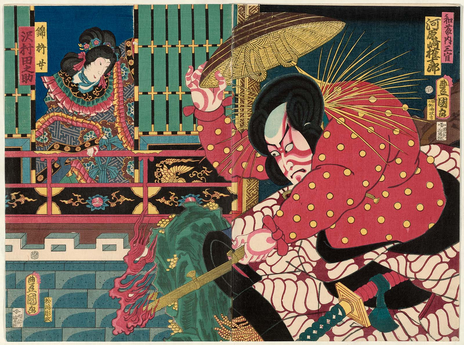 Kabuki Scene from Chikamatsu Monzaemon's "The Battles of Coxinga" (Kokusen'ya Kassen)